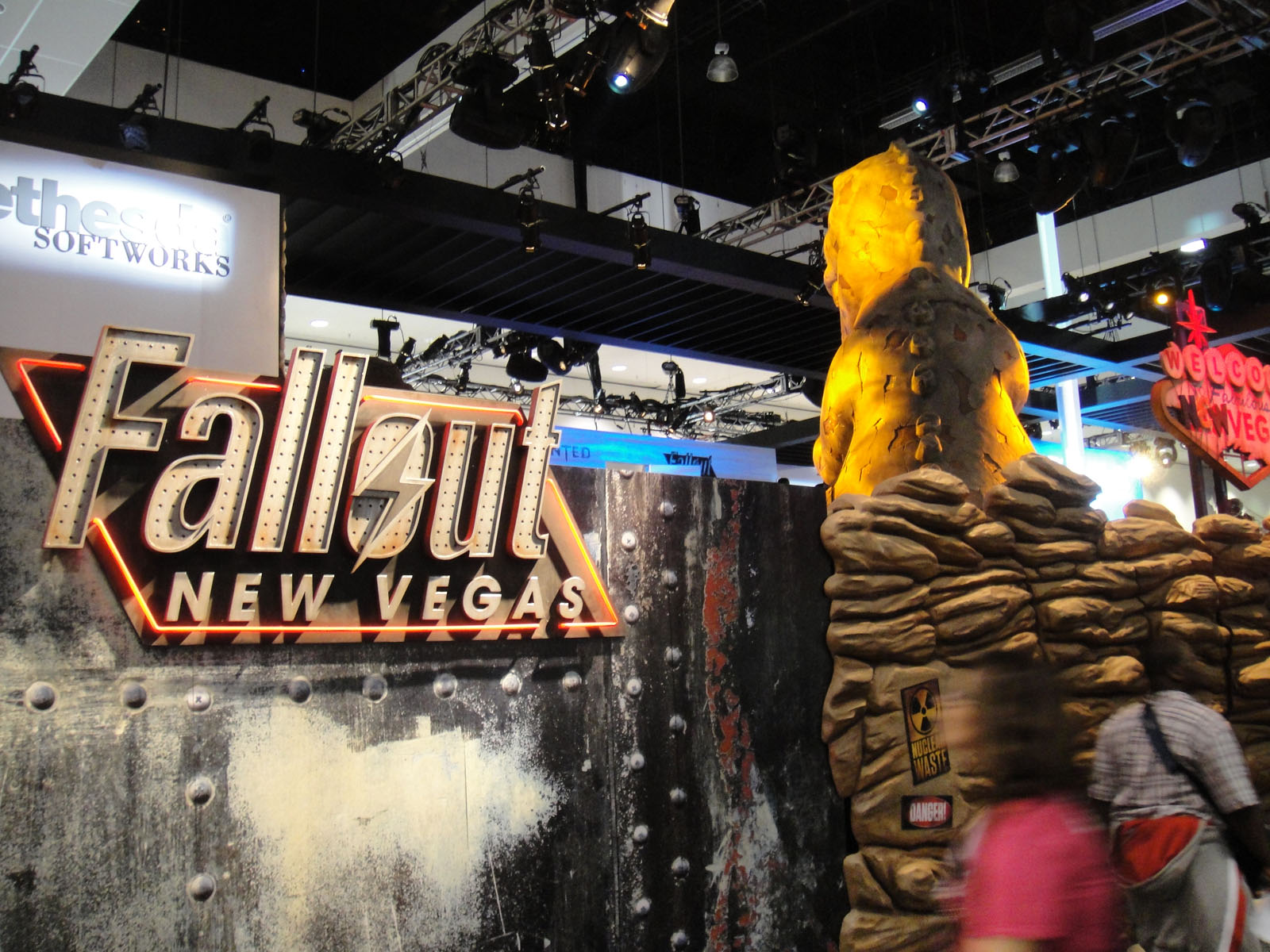 Taken on June 15, 2010 Dowtown Carrier Annex, Los Angeles, CA, US Sony DSC-T900